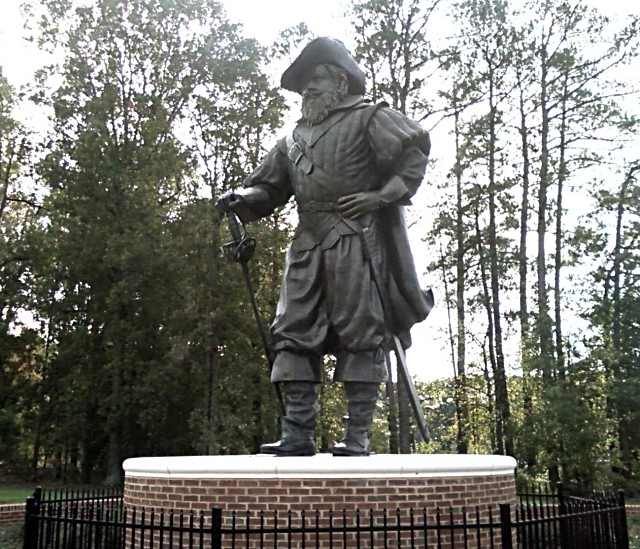 Statue of Christopher Newport at Christopher Newport University Summary Statue of Christopher Newport at Christopher Newport University Sculptor Jon D. Hair.